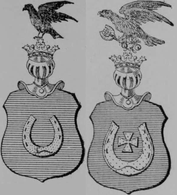 Coat of arms Jastrzębiec from Księga herbowa rodów polskich by J.K. Ostrowskiego